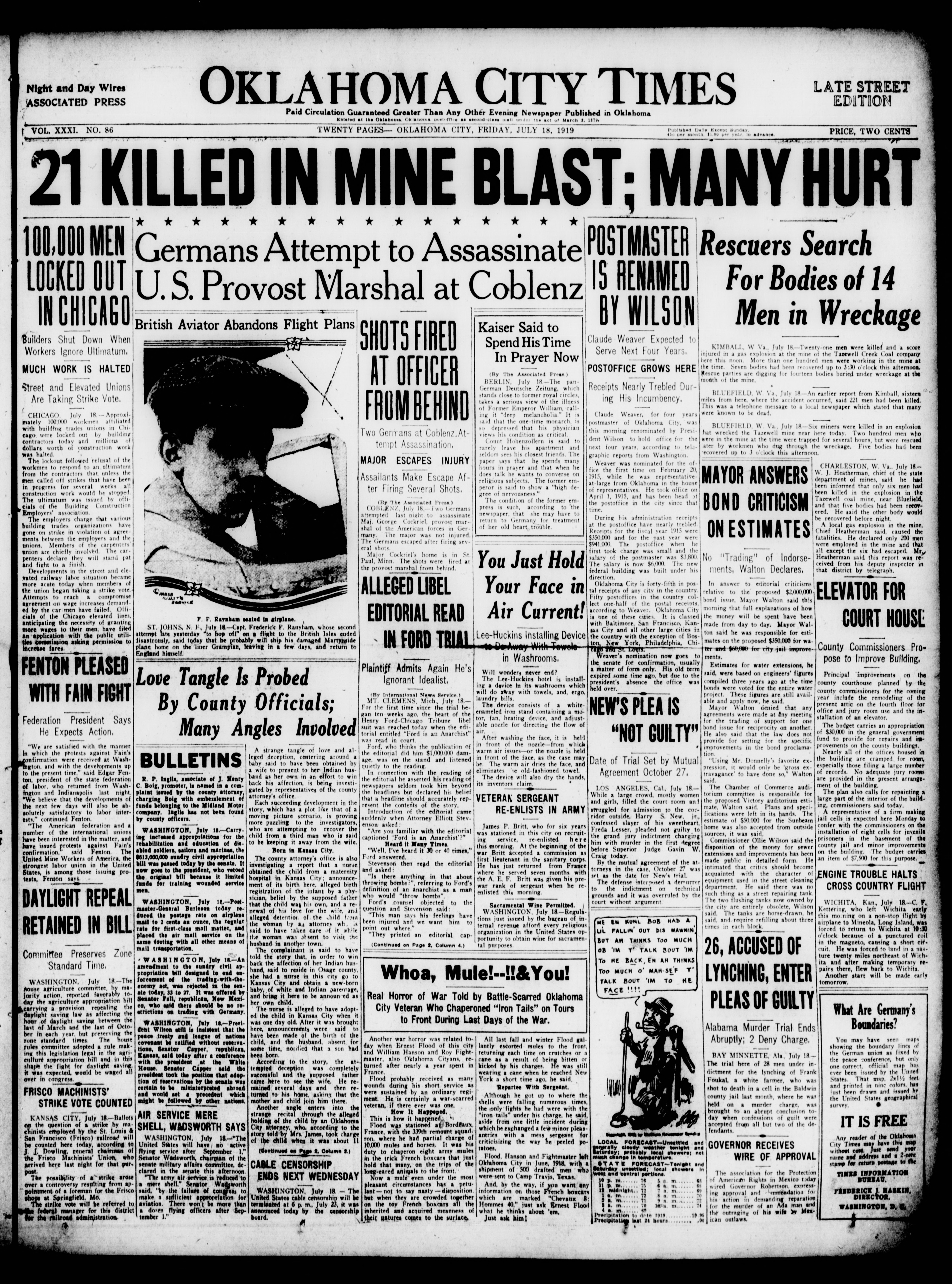 Front page of The Oklahoma City times., July 18, 1919, LATE STREET EDITION, Image 1